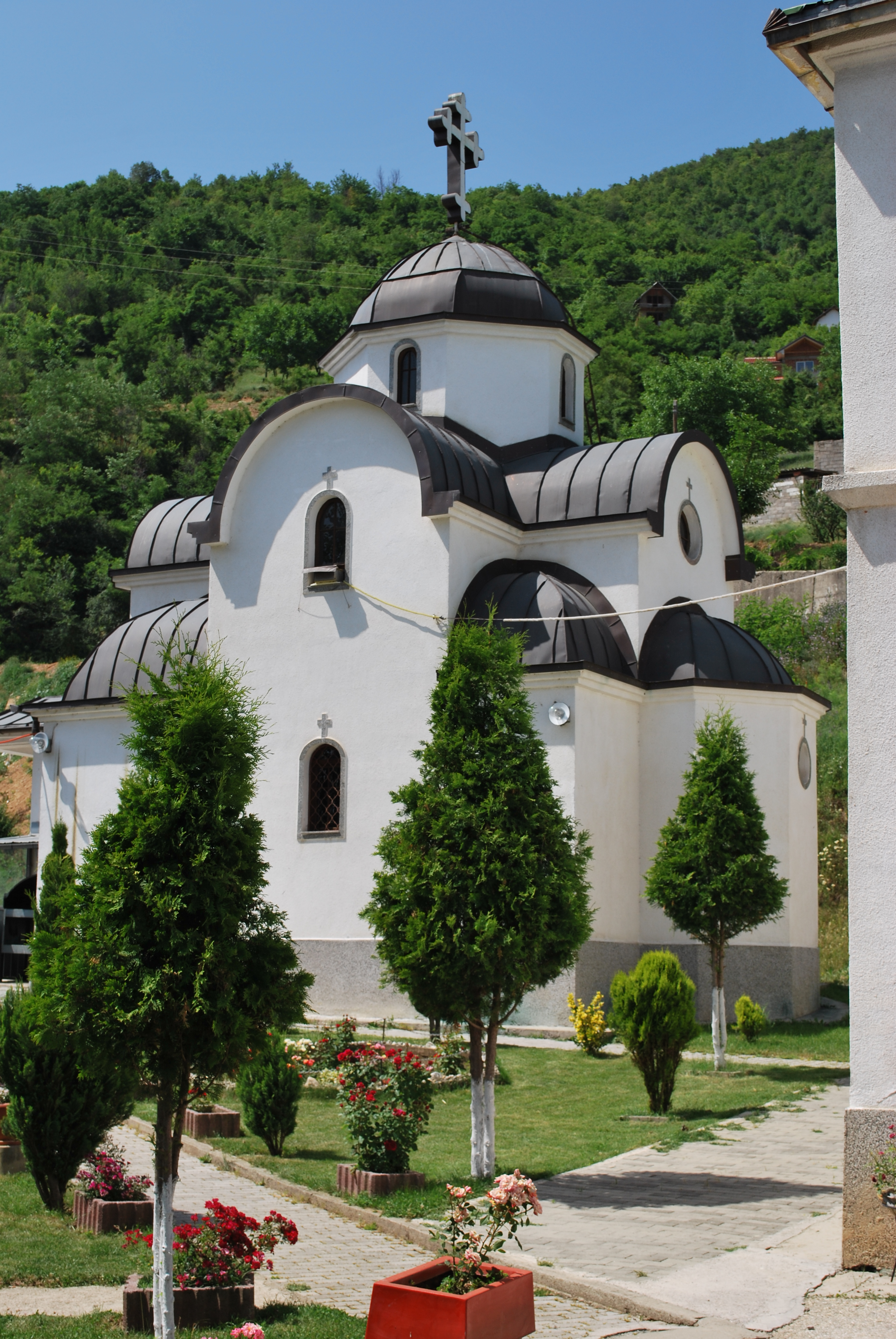 St. Petka Church in Tetovo, Macedonia